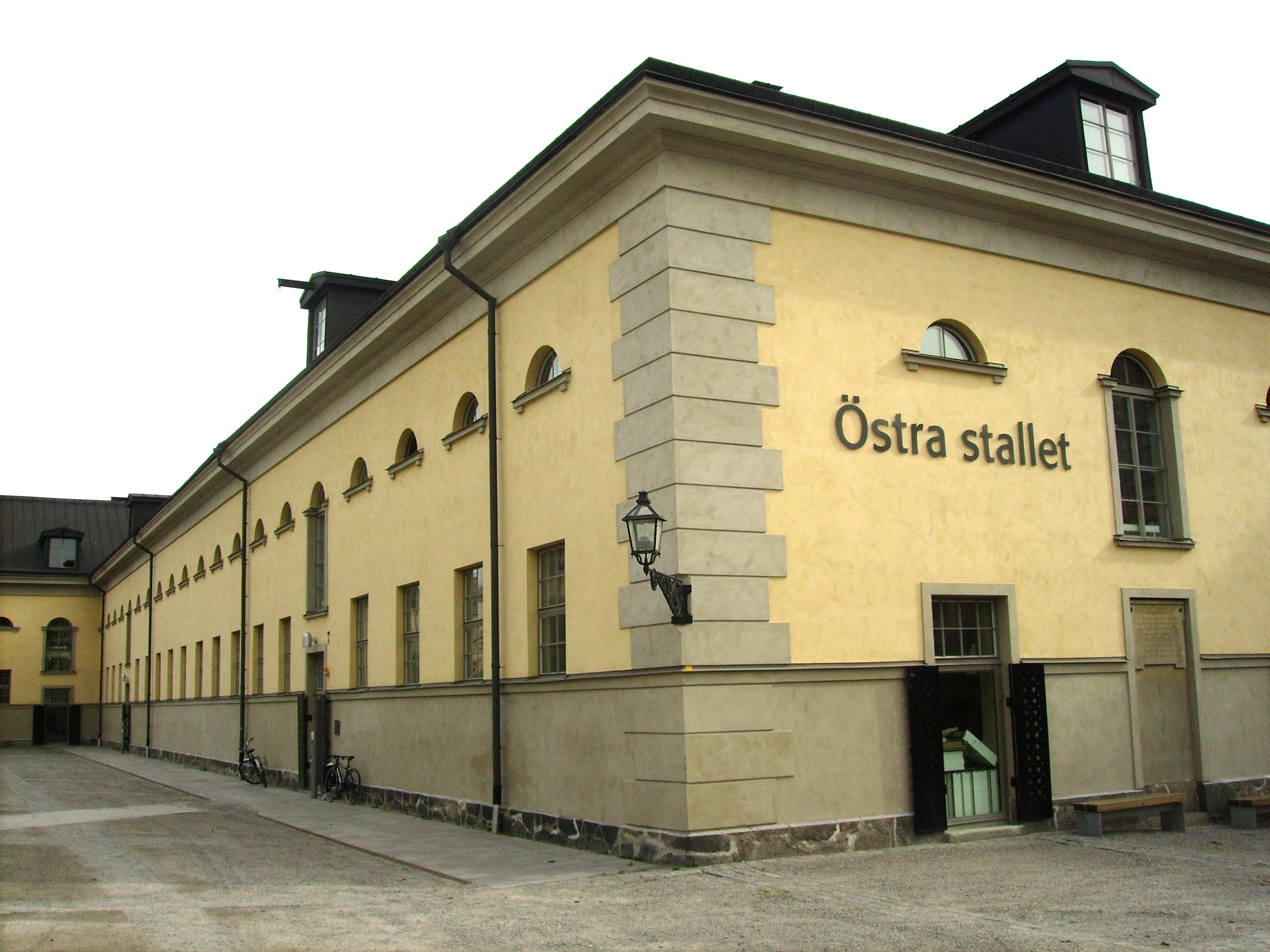 Picture of Antikvarisk-topografiska arkivet's (ATA) in Stockholm